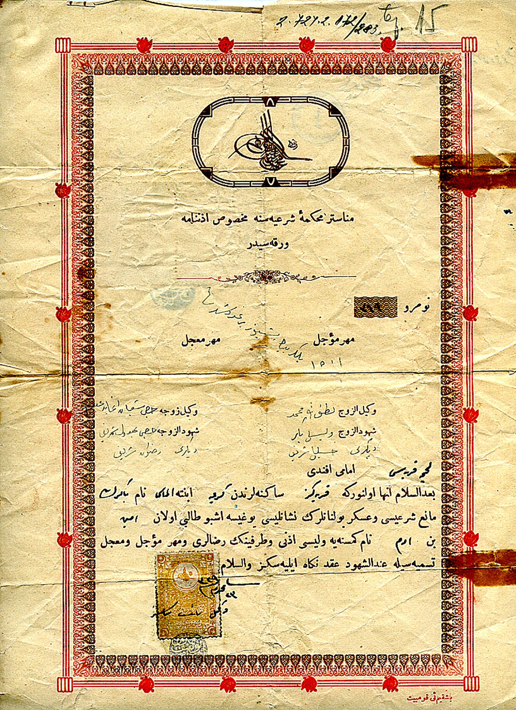 Permission to marry, village Lahce, 1913. This media file is produced by Wikipedian in Residence in Category:Wikipedian in Residence at DARM in 2016.